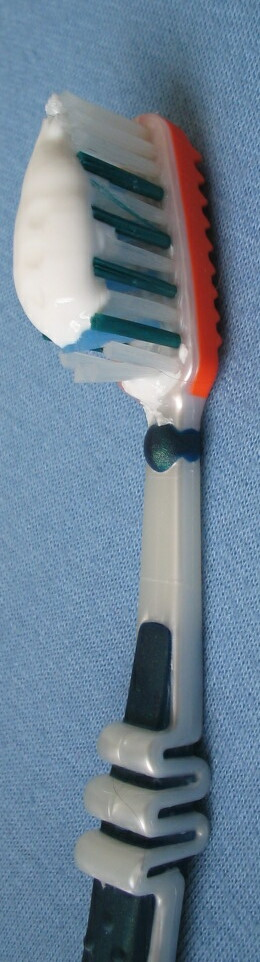 A toothbrush.